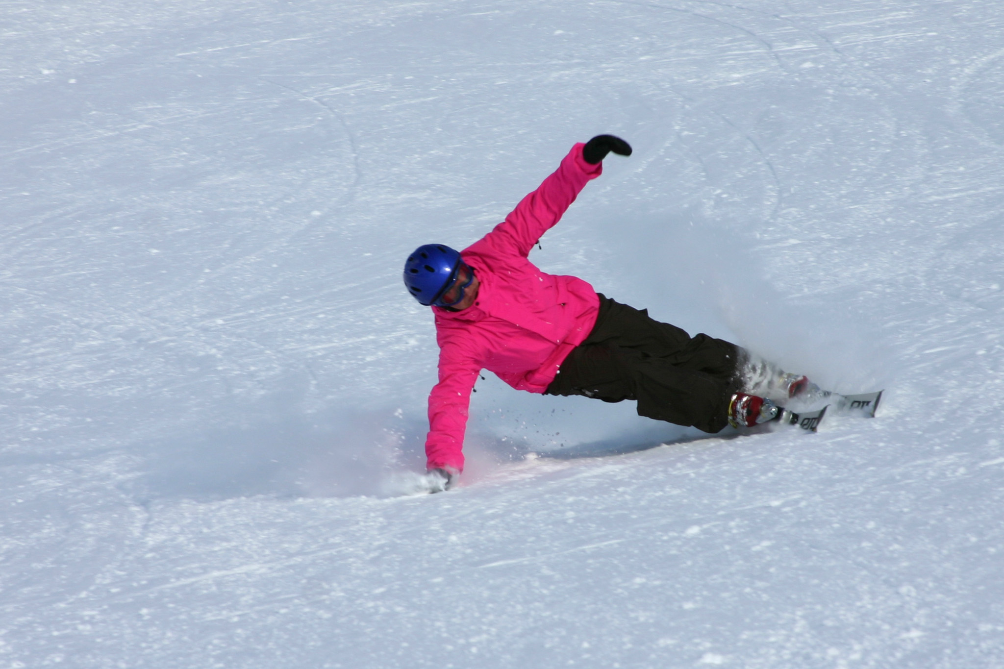 Carving